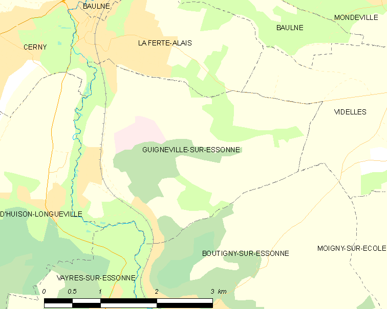 Map of French municipality Guigneville-sur-Essonne